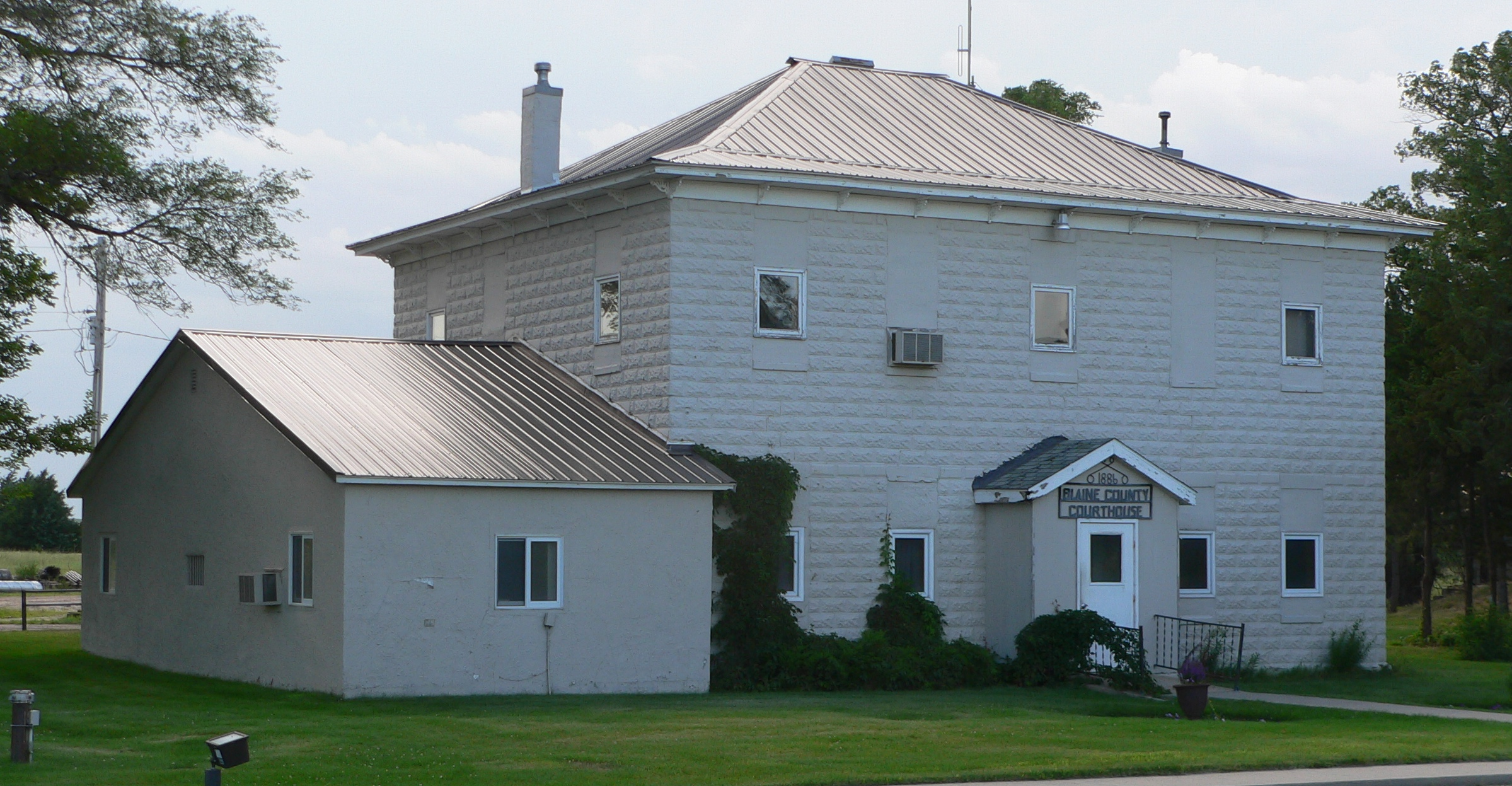 Blaine County courthouse in Brewster, Nebraska; seen from the southeast.